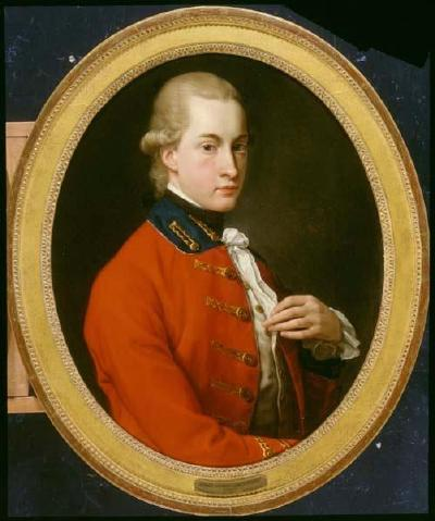 Portrait of George Herbert, 11th Earl of Pembroke (1756-1827)